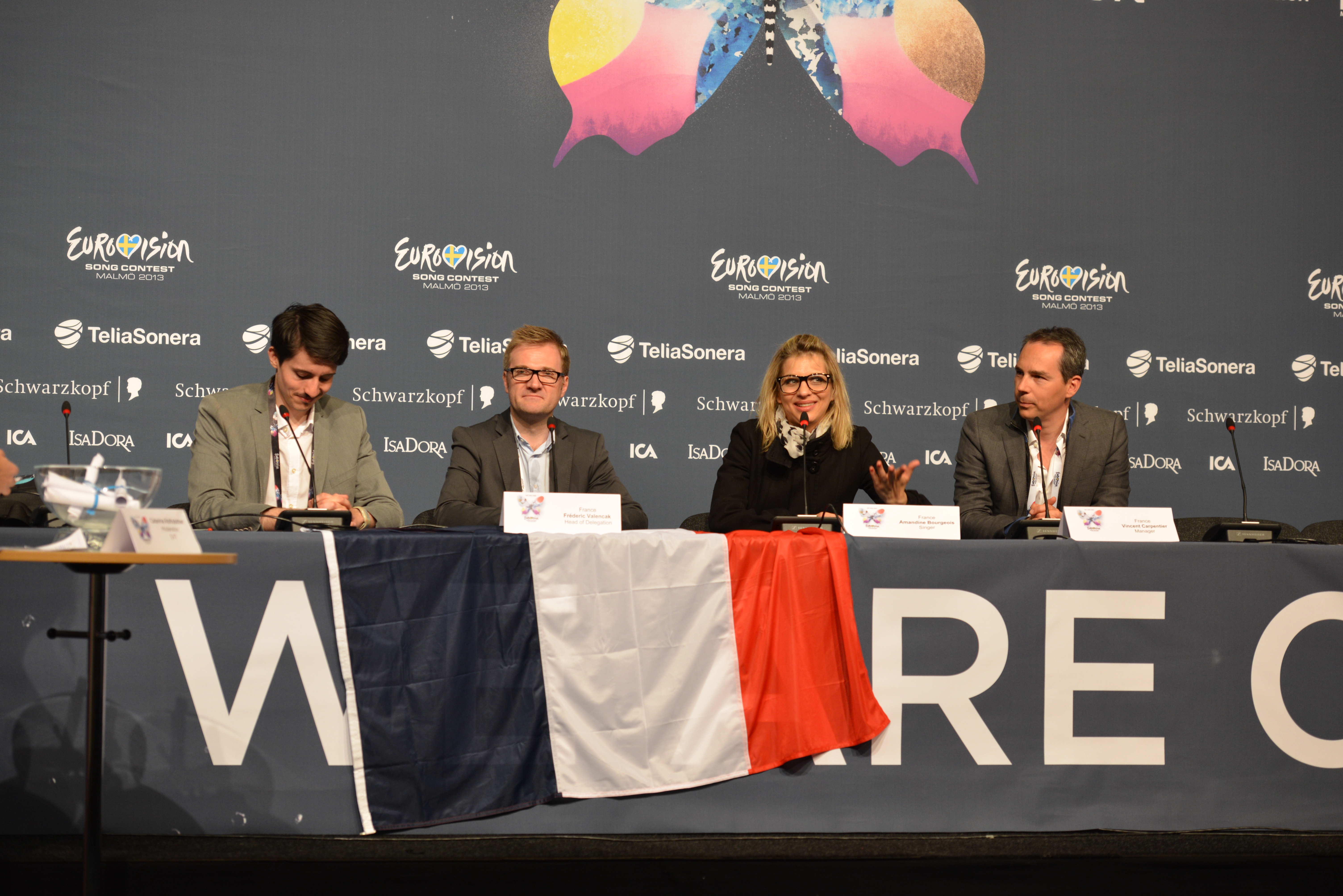 Amandine Bourgeois at a press conference during the Eurovision Song Contest 2013 in Malmö. (Help translate this text)